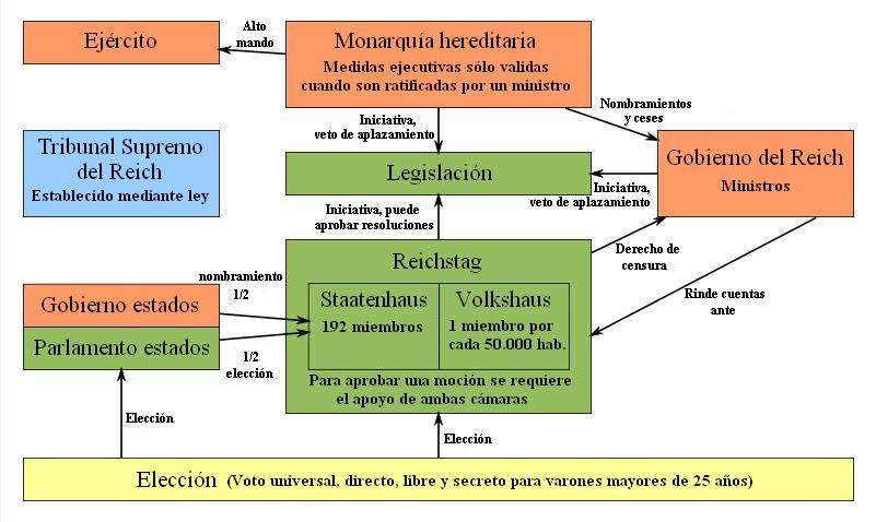 Created as a translation of Bild:Paulskirchenverfassung 1849.svg. The image contains public domain information, no copyright applies.